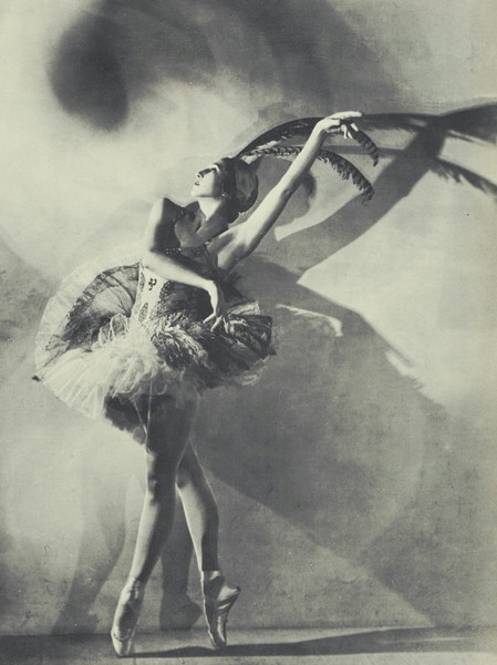 Tamara Karsavina as the Firebird in the 1910 Ballets Russes production of L'Oiseau de Feu.